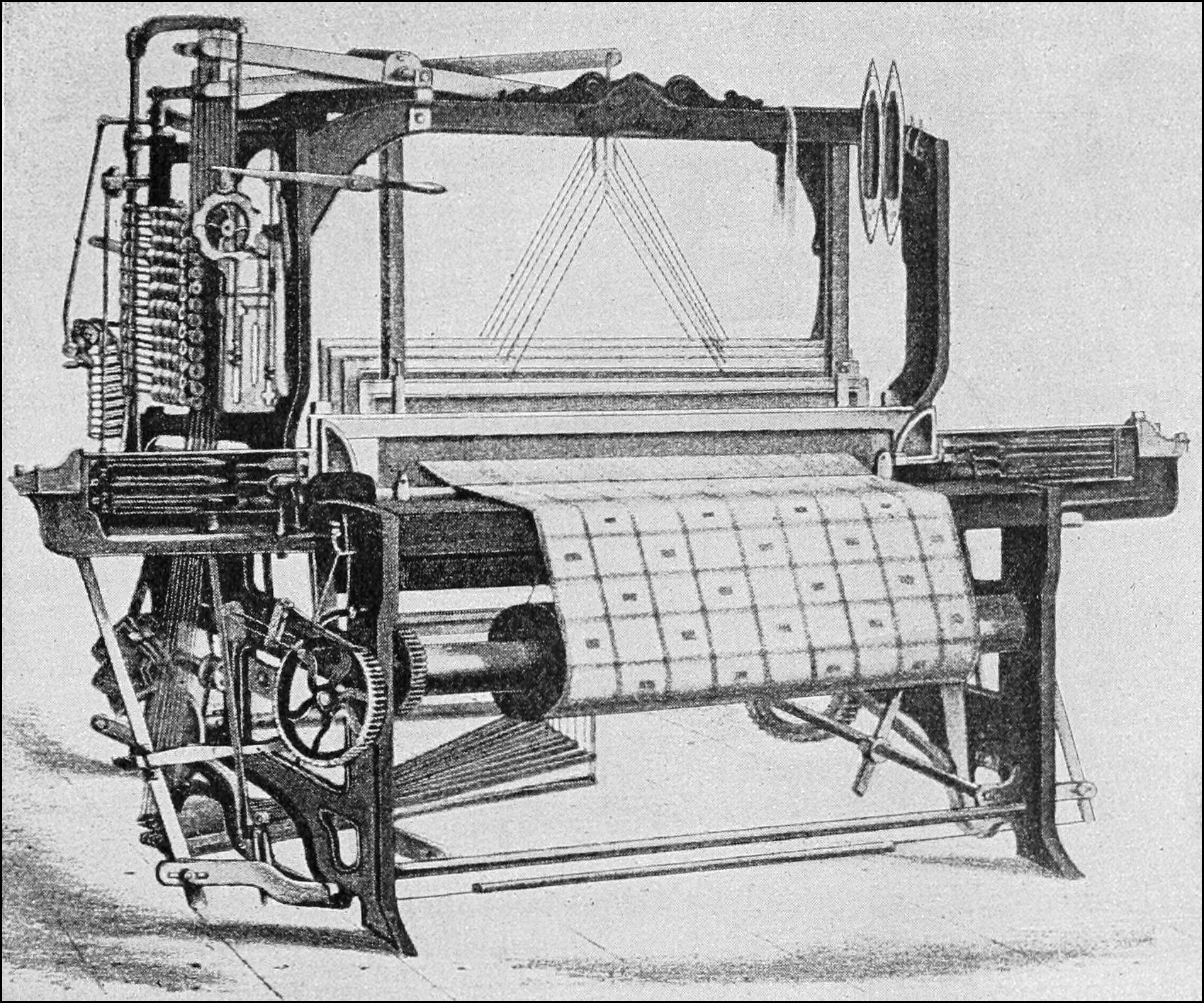 Crompton fancy narrow loom of 1855